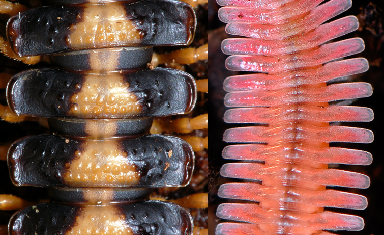 Paranota of selected millipedes, dorsal aspect. Left: Coromus vittatus (Polydesmida, Oxydesmidae). Right: Brachycybe lecontii (Platydesmida, Andrognathidae). Anterior is towards top of image. Images not to scale.